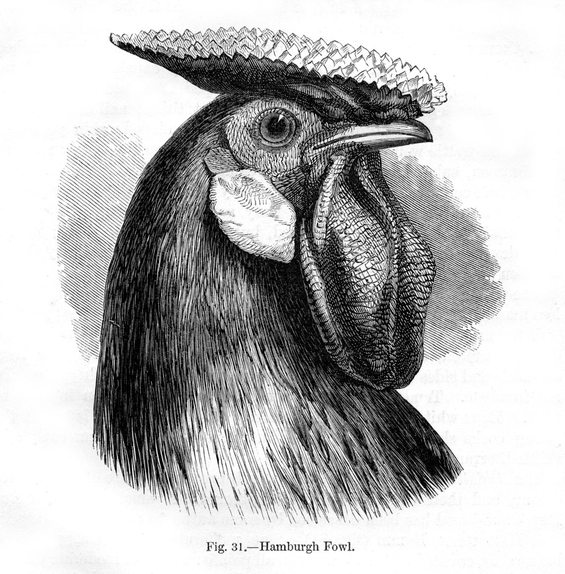 Figure 31 - "Hamburgh Fowl" from Charles Darwin's book Variation of Animals and Plants Under Domestication published in 1868.